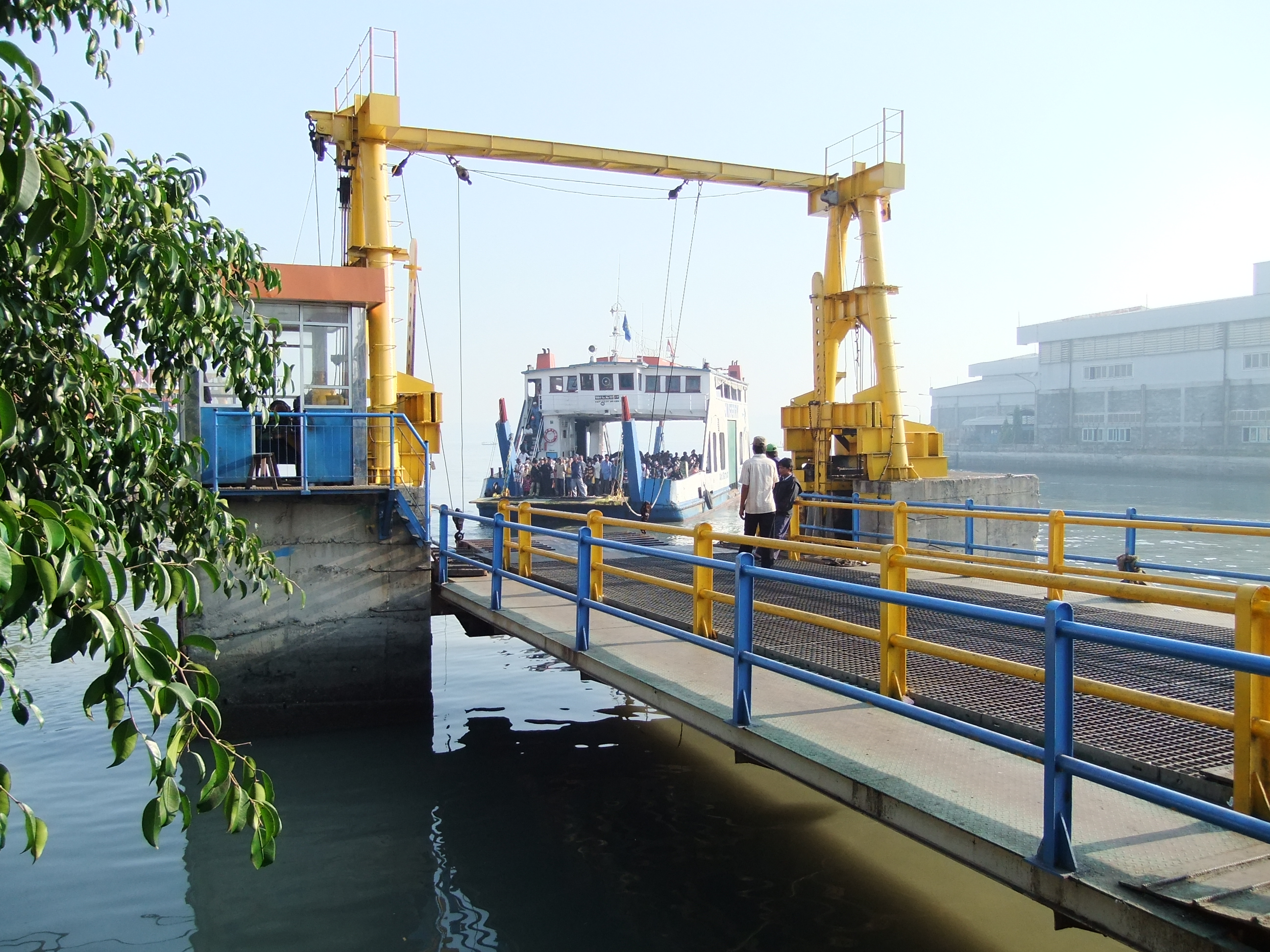 Ujung Port, Surabaya